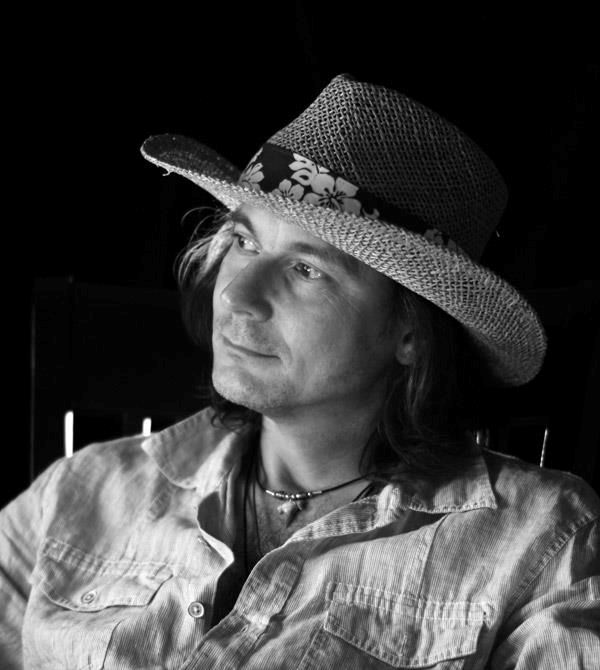 Headshot of Guido Henkel